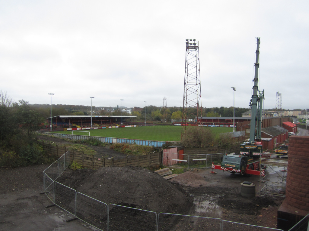 Workington Association Football Club Ground, near to Workington, Cumbria, Great Britain.